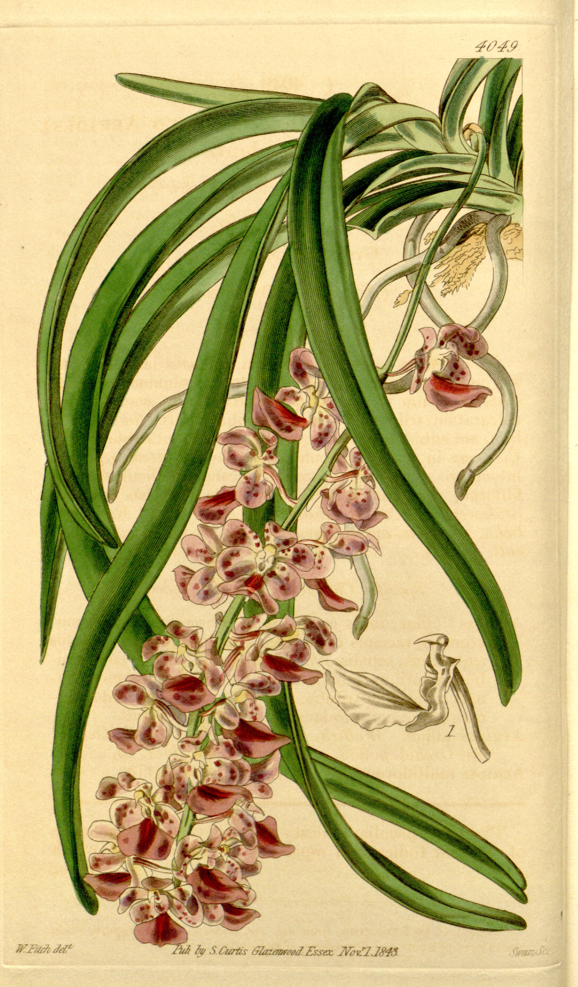 Illustration of Aerides multiflora (as syn. Aerides affinis)